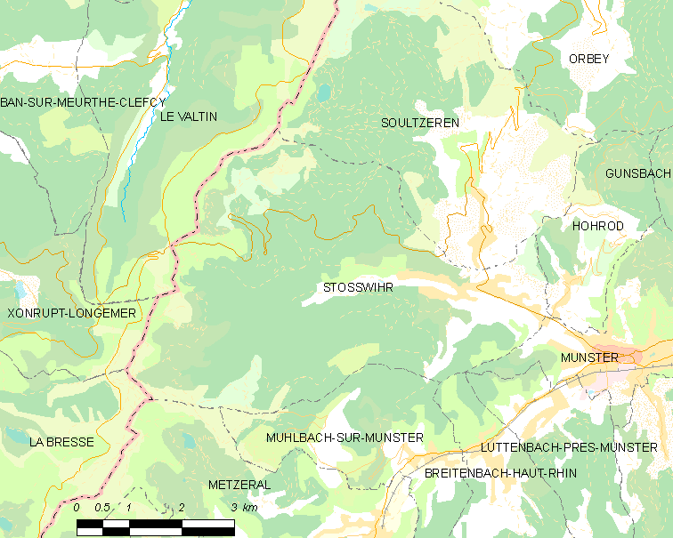 Map of French municipality